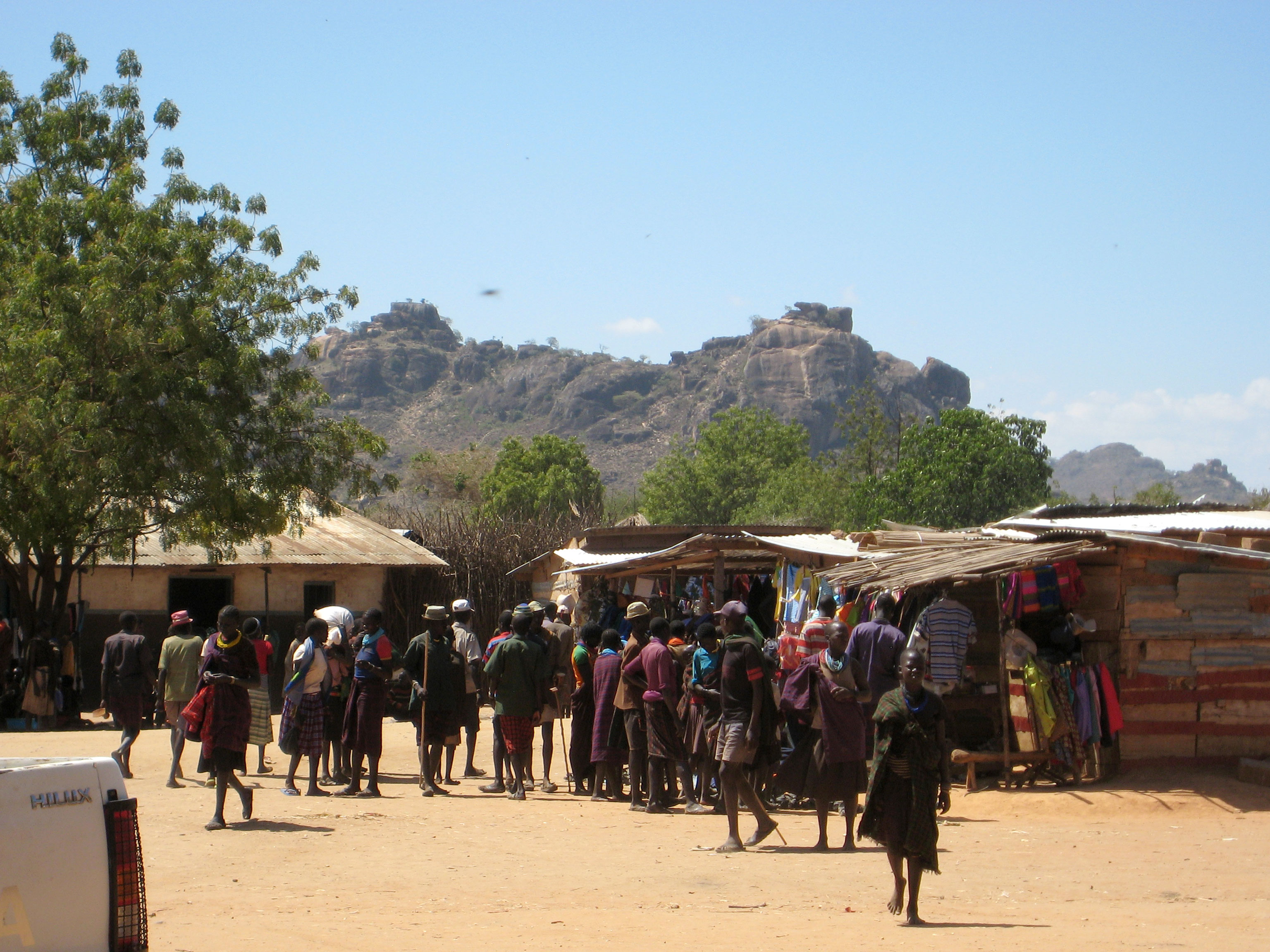 Street corner in Kaabong Town